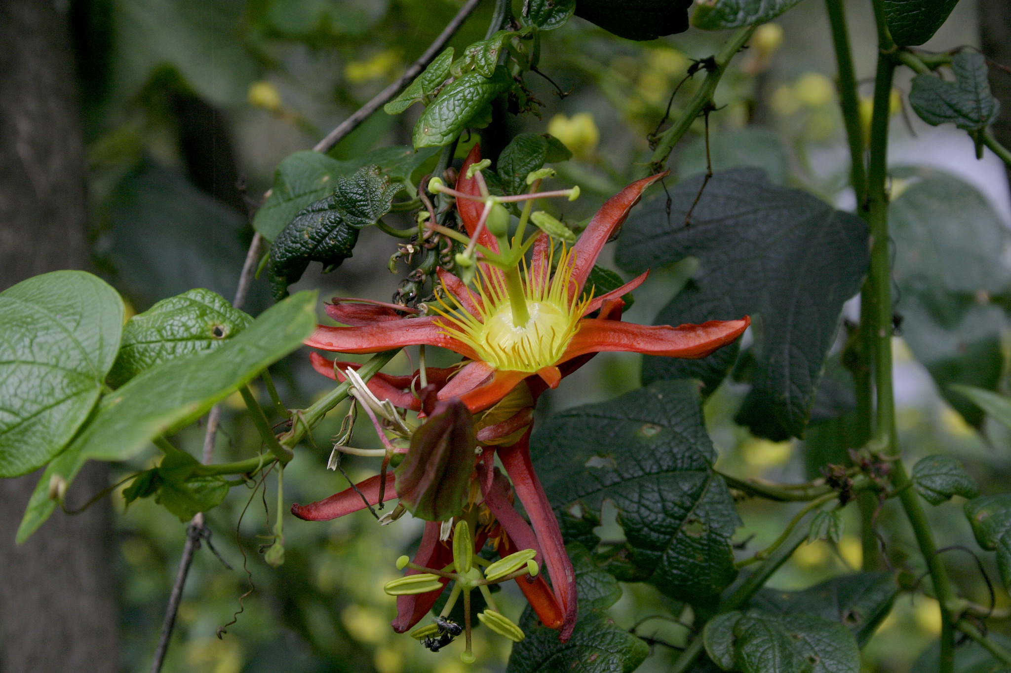 Colo River, 1 to 2 km upstream of Colo Meroo, Wollemi National Park, New South Wales